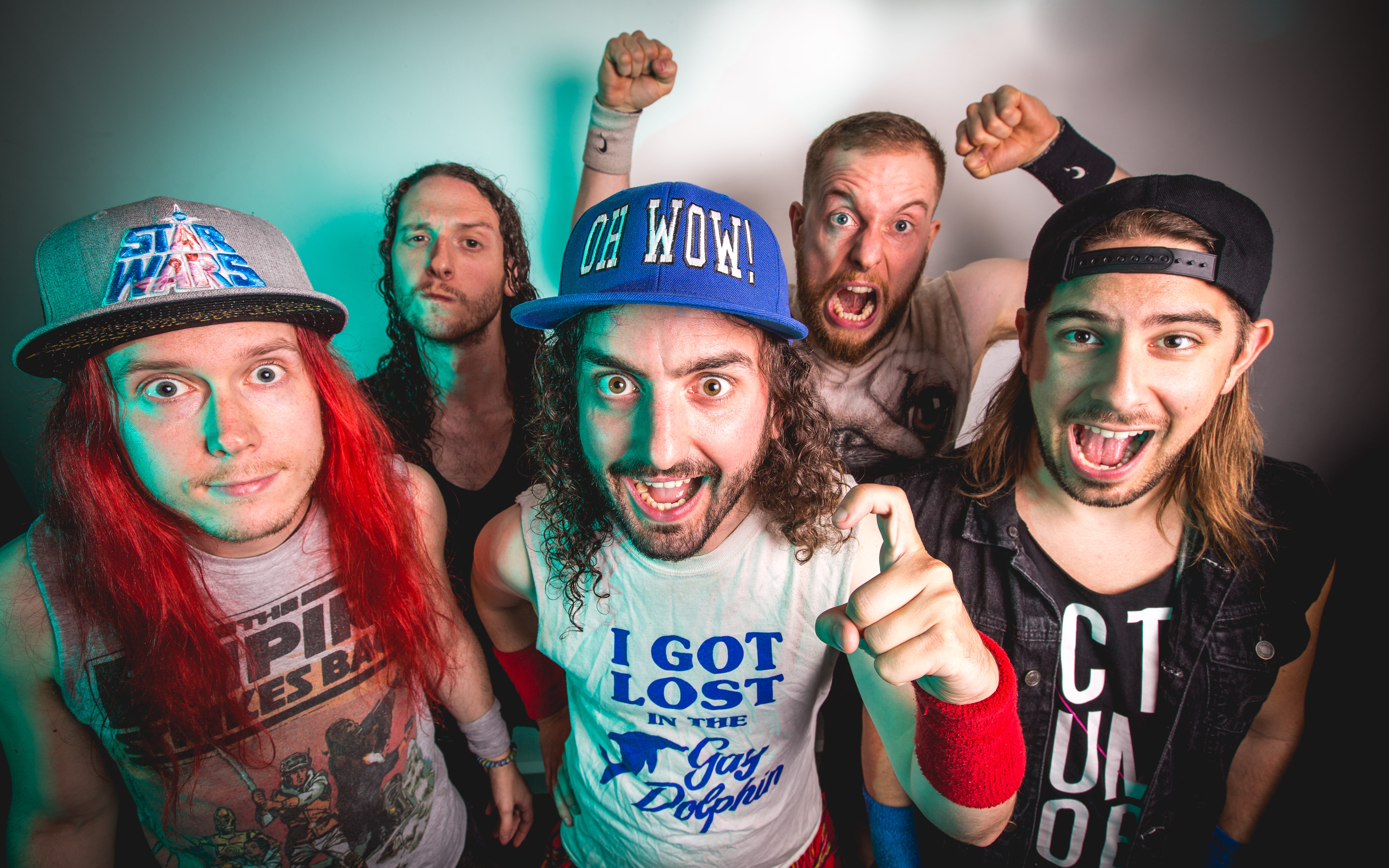 A promotional photograph of the band Alestorm taken by Elliot Vernon, keyboard player of the band in Manchester, June 9th 2017